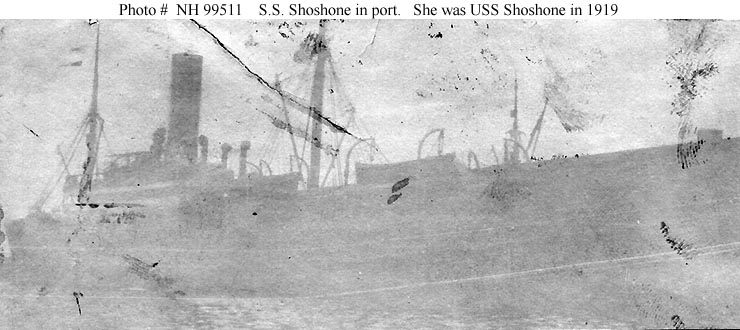 U.S. Navy transport USS Shoshone (Id-1760), as commercial ship SS Shoshone, probably in 1917